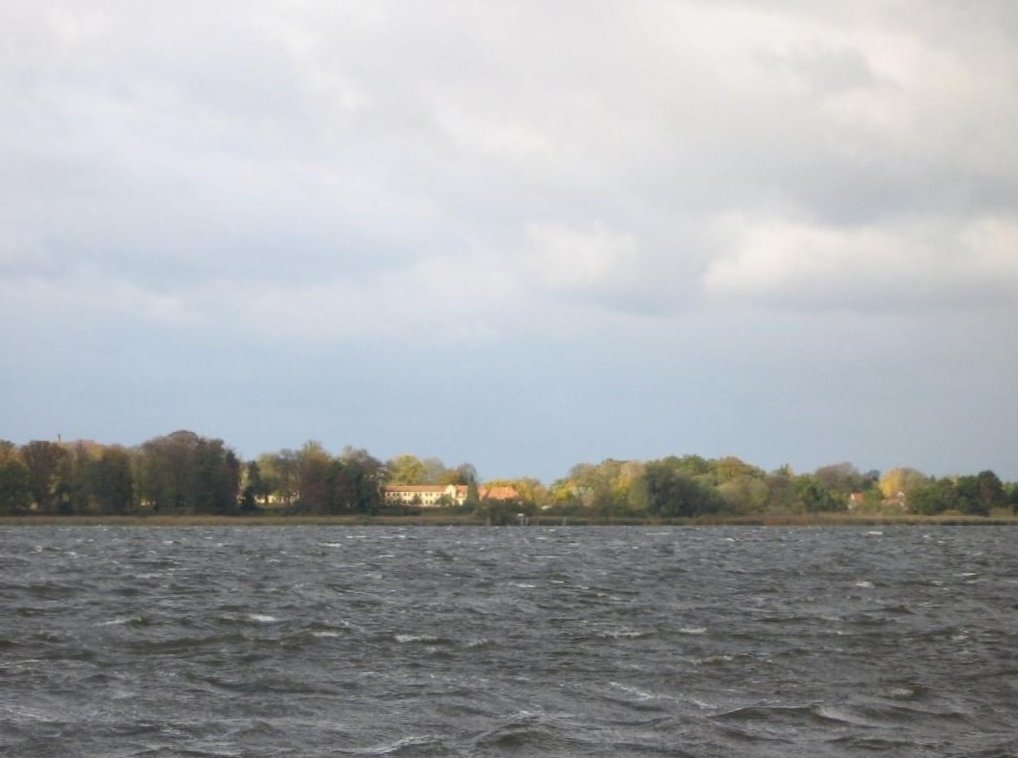 The Lake "Schwielow" (River Havel) in Brandenburg (Germany).